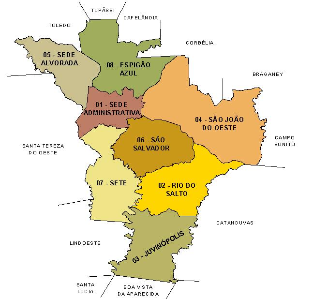 mapa de cascavel